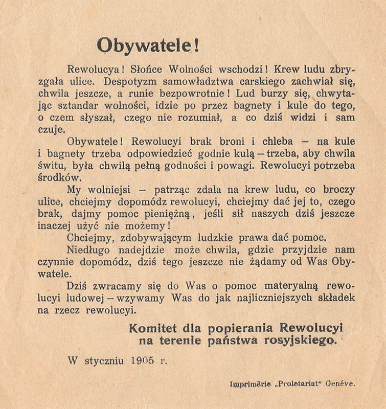 Leaflet of the III Proletariat party